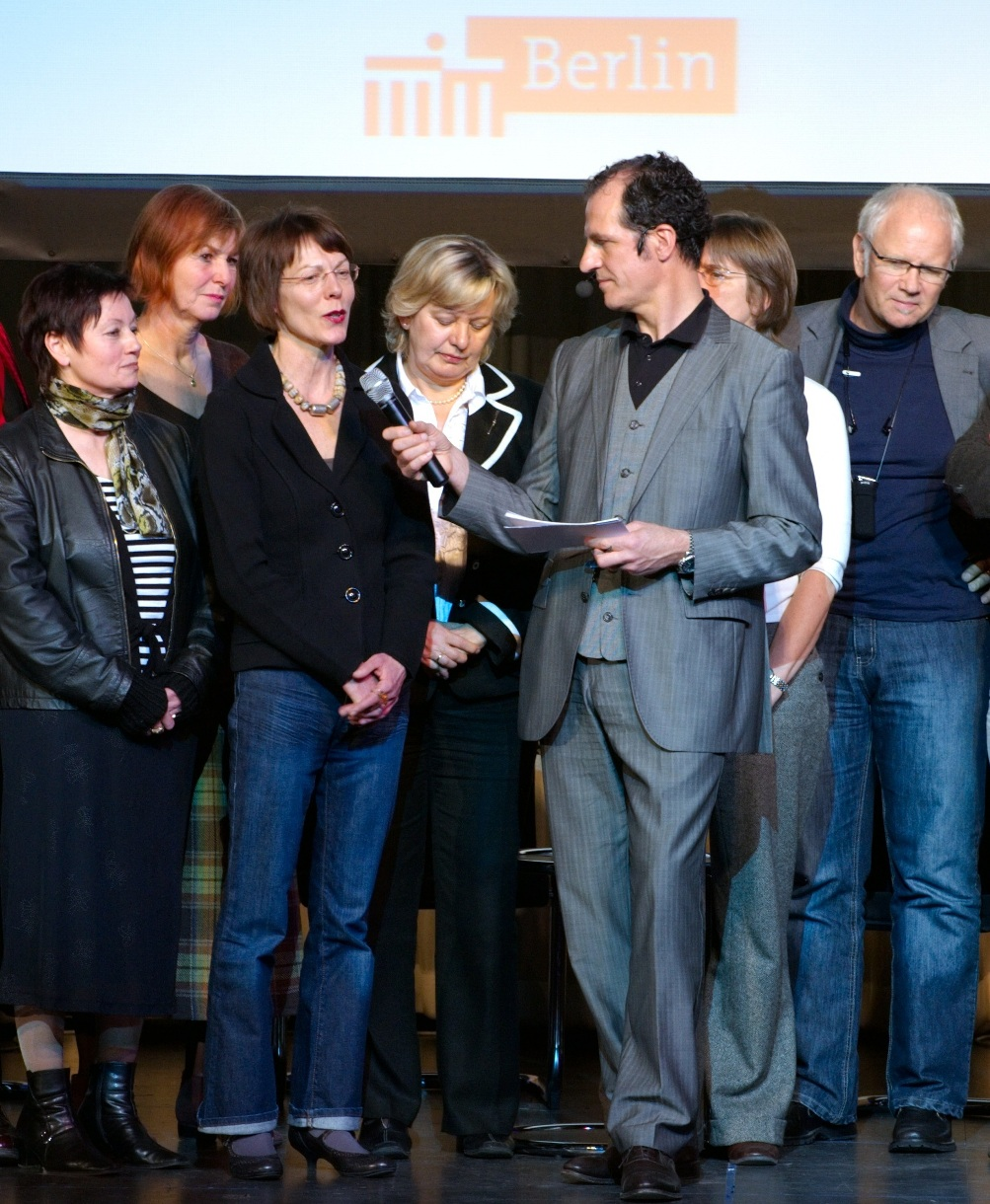 buddy e.V. kongress